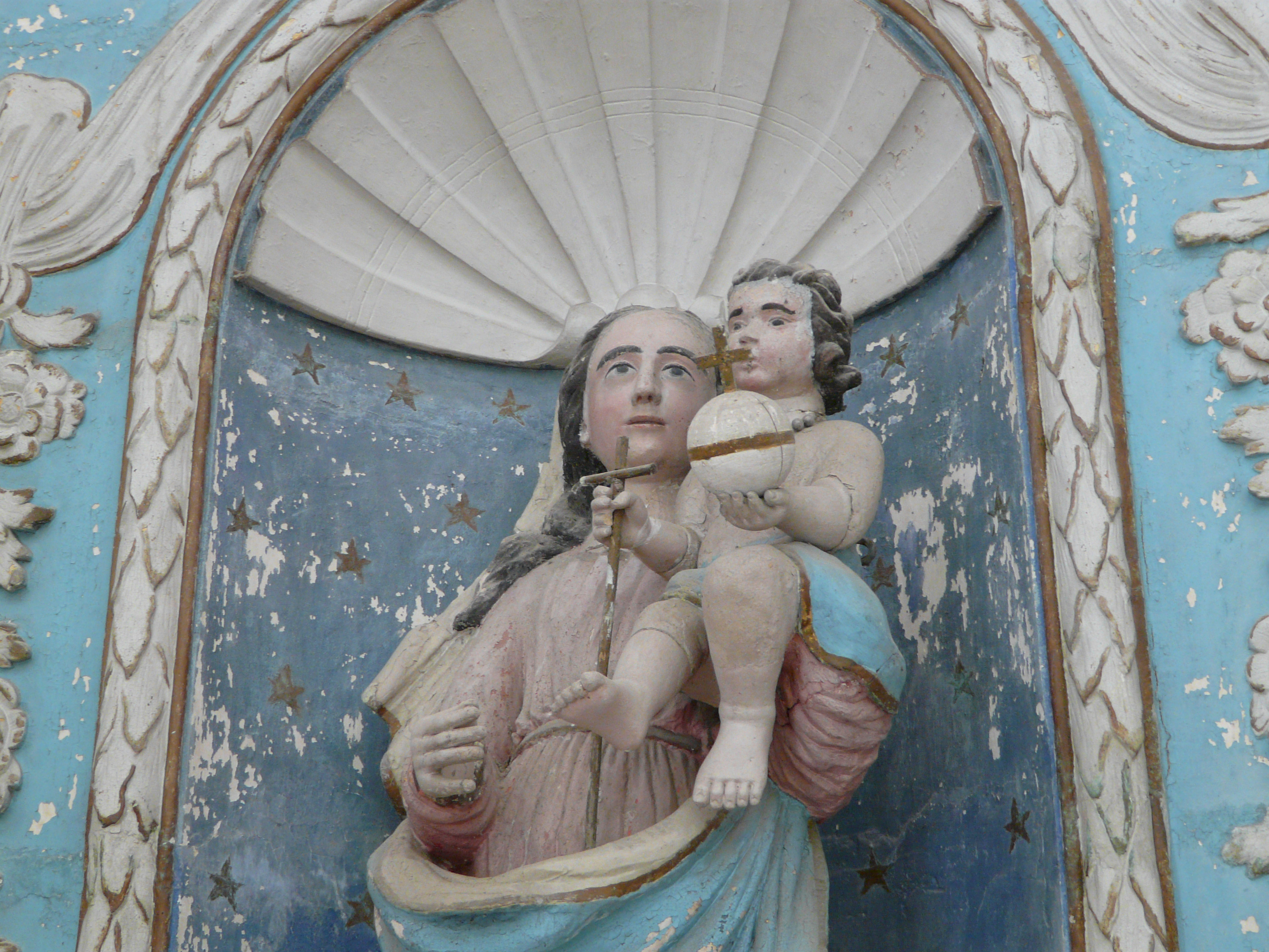 Retable in the church of Naives-en-Blois (Meuse, France) from the former abbey of Riéval